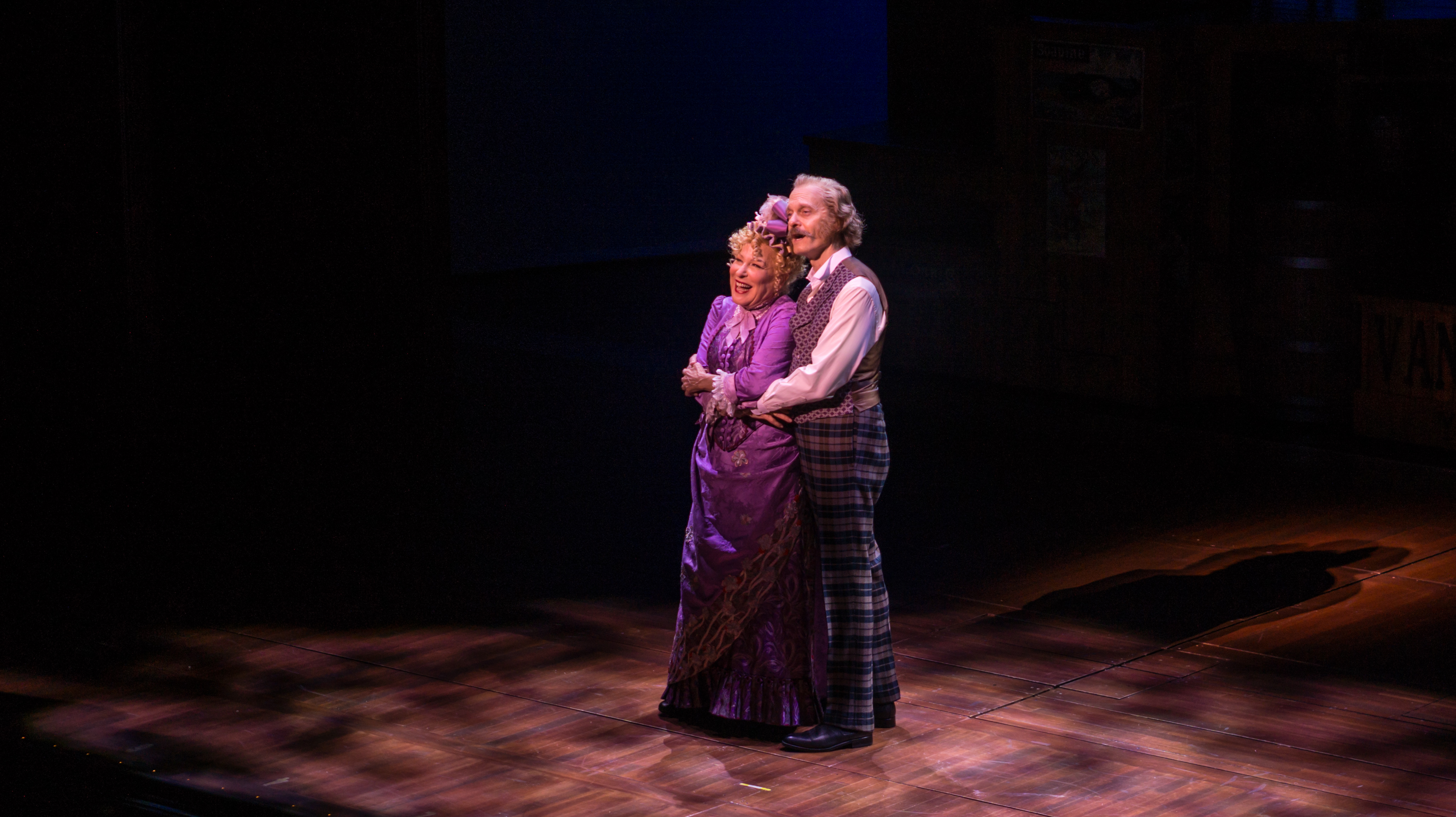 HelloDollyNYC051017-7